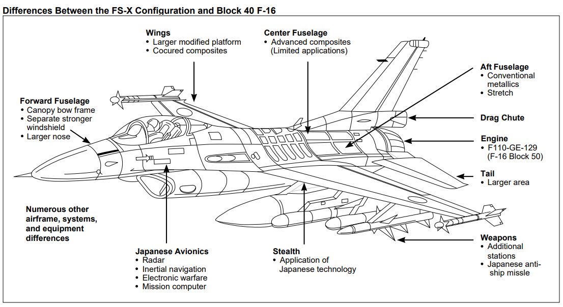 Diffferences between F-2 and F-16